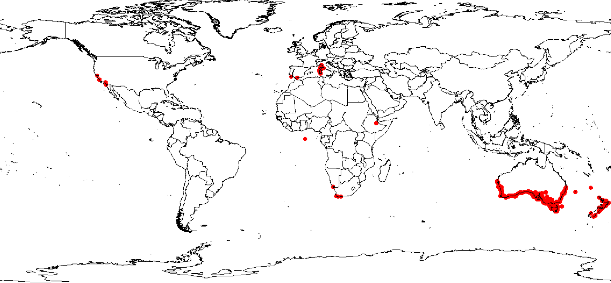 Myoporum insulare occurrence data from (03 June 2018) GBIF Occurrence Download